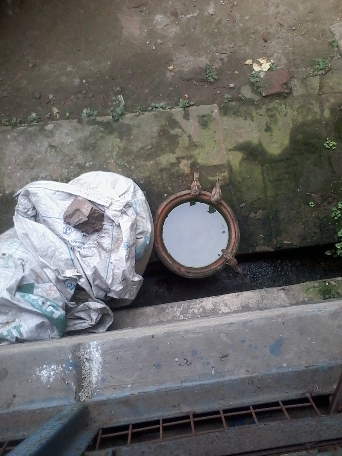 Water is life